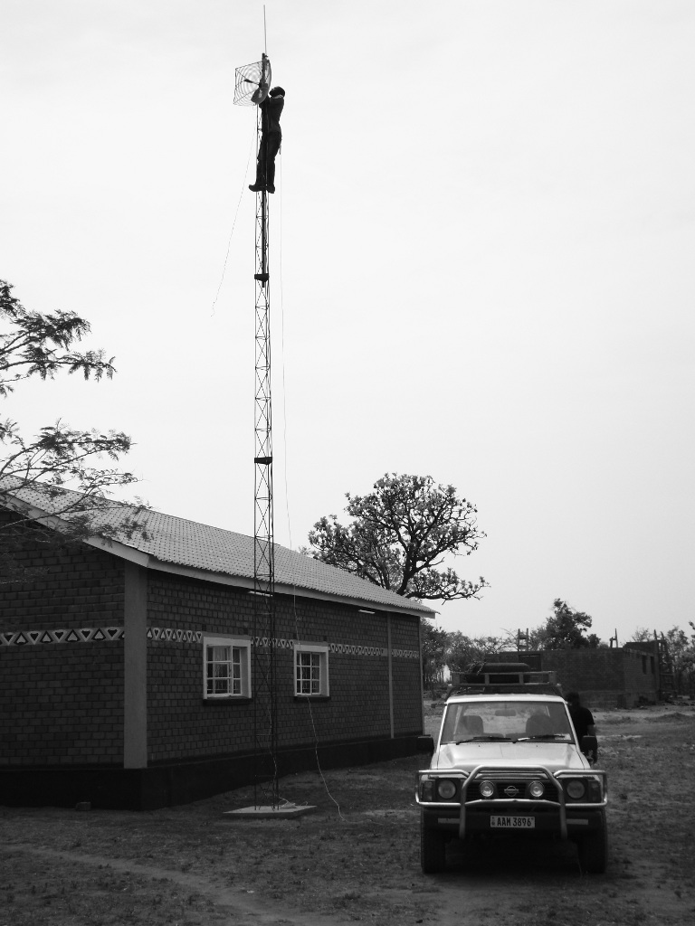 Connecting an antenna for the wireless network at Ubuntu Campus in Macha, Zambia